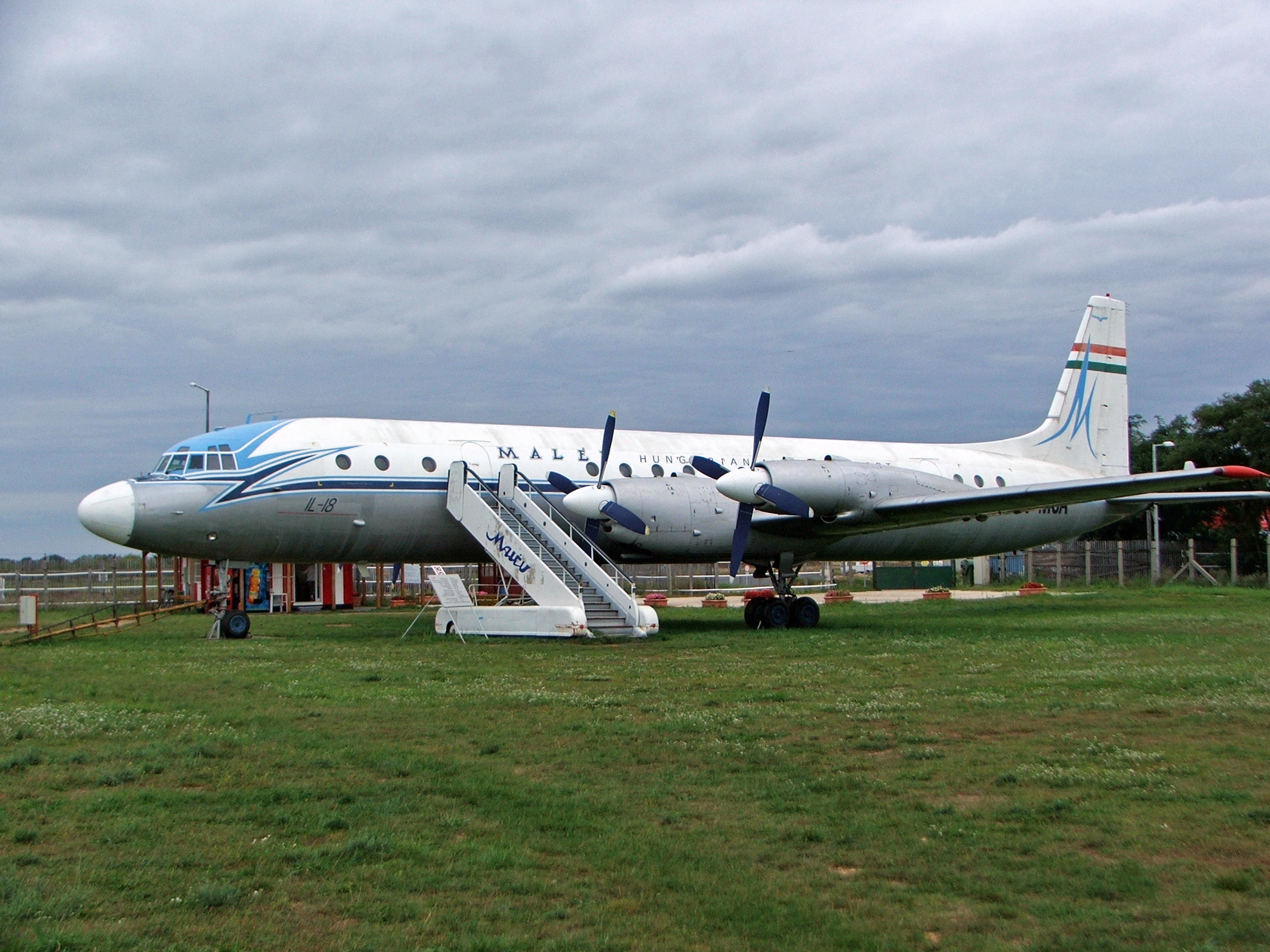 MALÉV IL-18 in Open Air Aircraft Museum at Ferihegy, Budapest